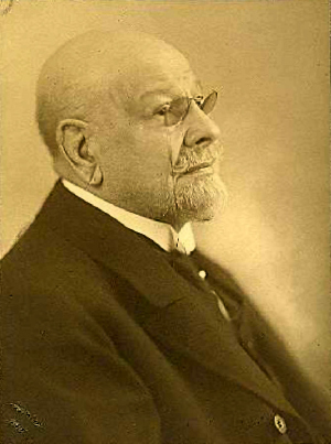 Portrait photo of Emil Rathenau, founder of AEG, facing right. Silver-gelatine print, original size 16.8×22.7 cm.